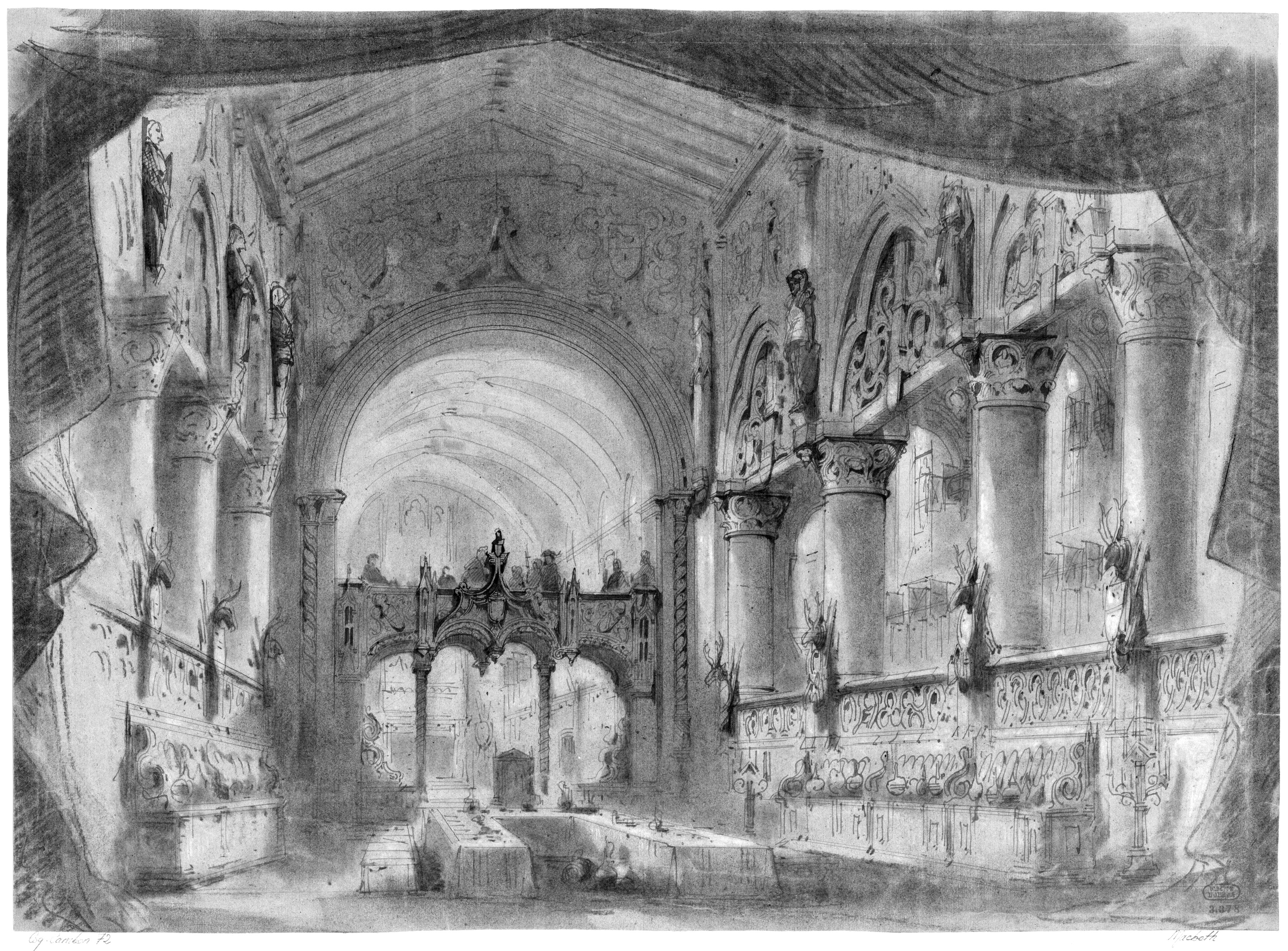 Design sketch for act 2, scene 5, of Verdi's Macbeth as performed at the Théâtre Lyrique in Paris beginning on 21 April 1865